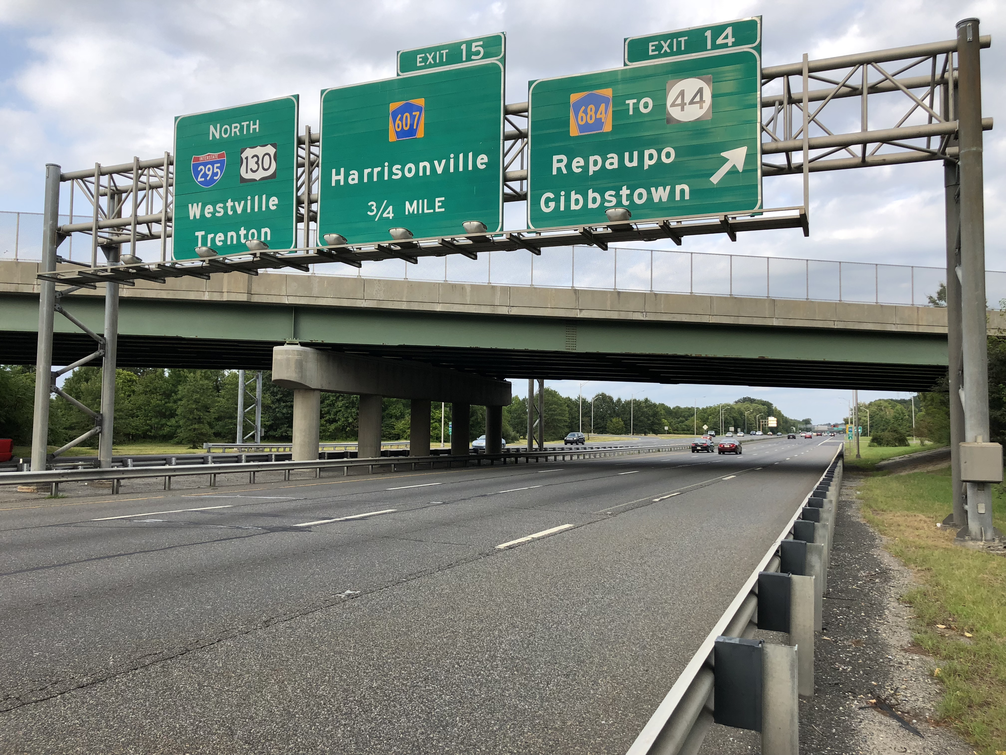 View north along Interstate 295 and U.S. Route 130 at Exit 14 (Gloucester County Route 684, To New Jersey State Route 44, Repaupo, Gibbstown) in Logan Township, Gloucester County, New Jersey